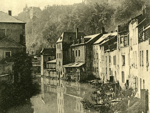 Photograph of Rue des Tanneurs, Pfaffenthal, Luxembourg